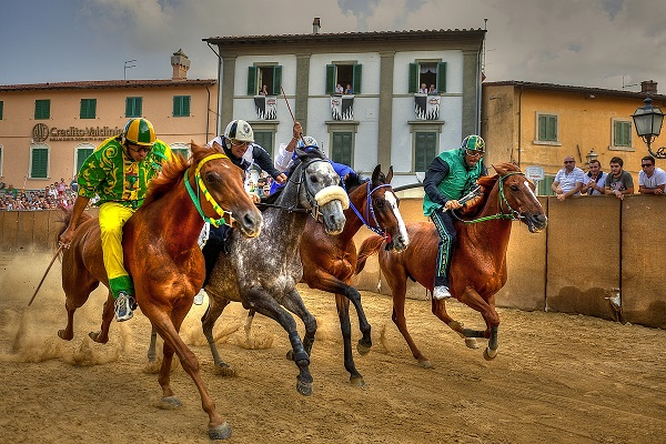 Palio of Bientina 2013